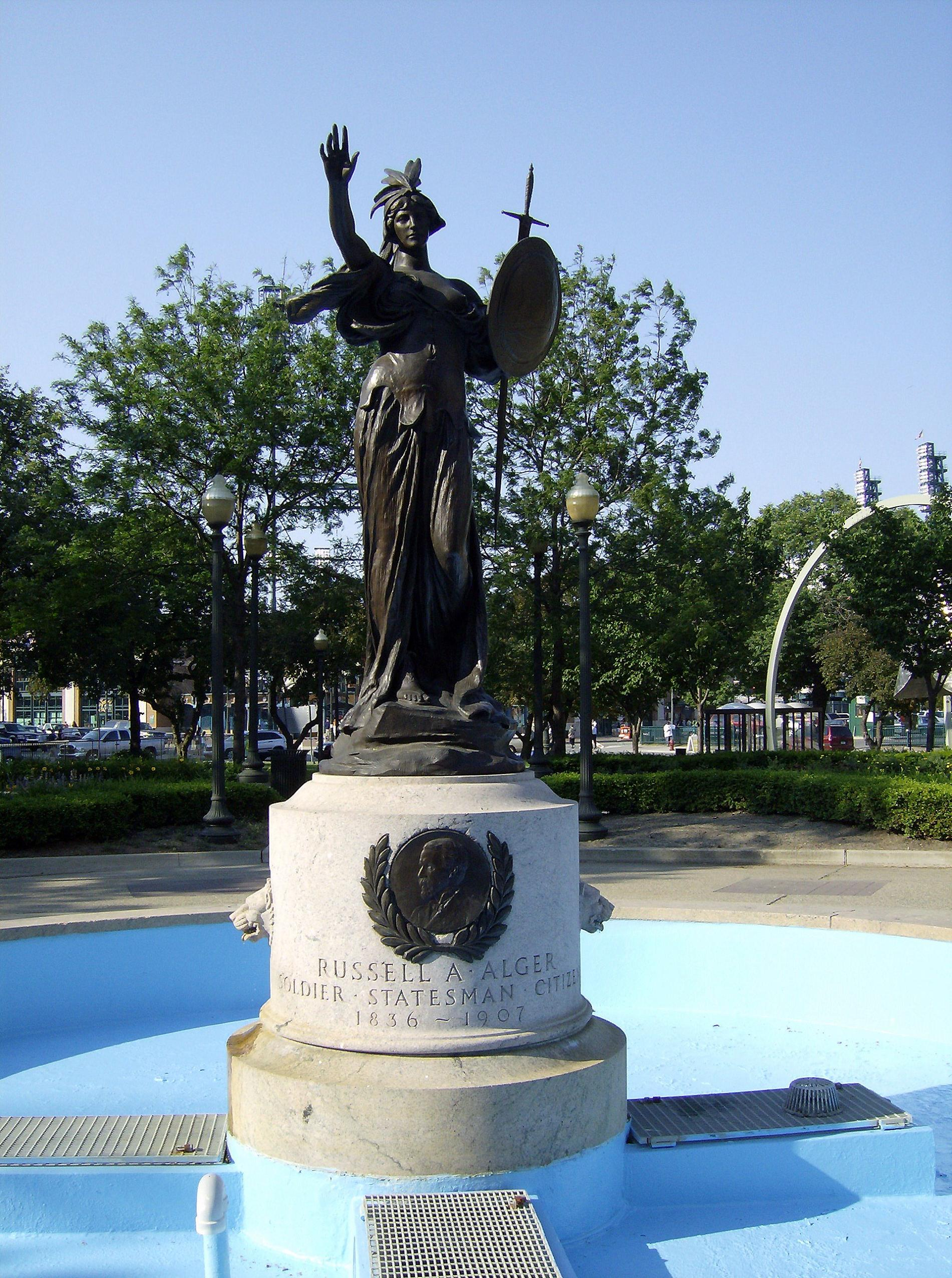 Russell Alexander Alger statue and fountain. In Grand Circus Park, downtown Detroit, Michigan.